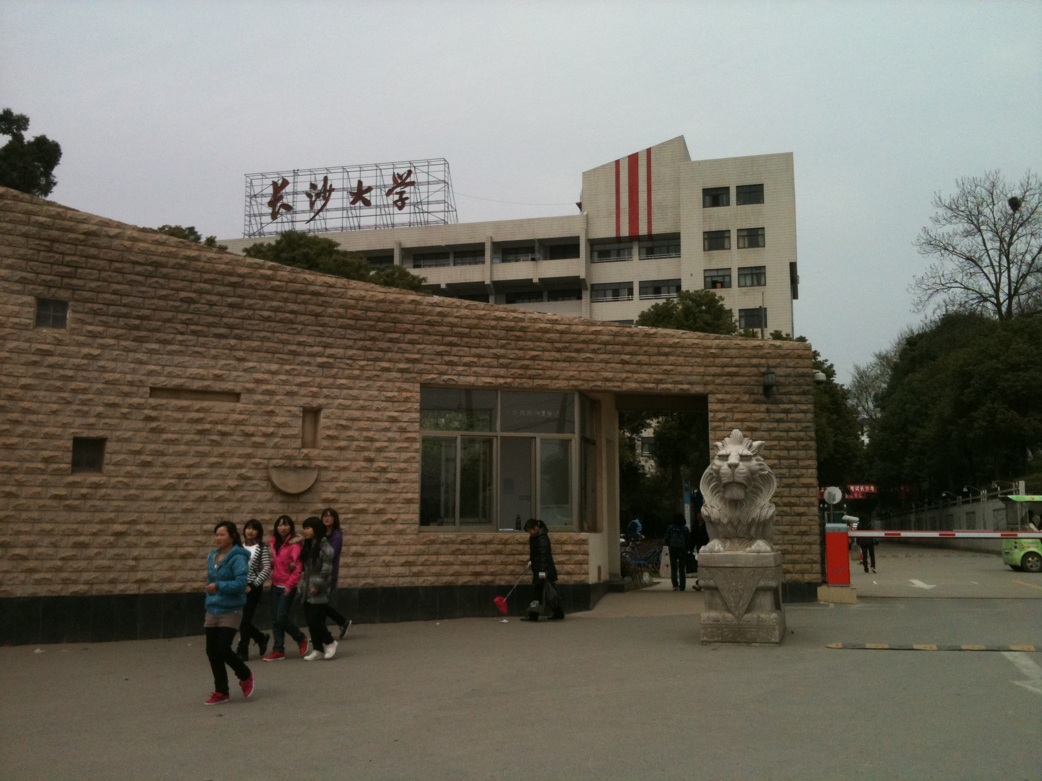 On of the entrances to Changsha University